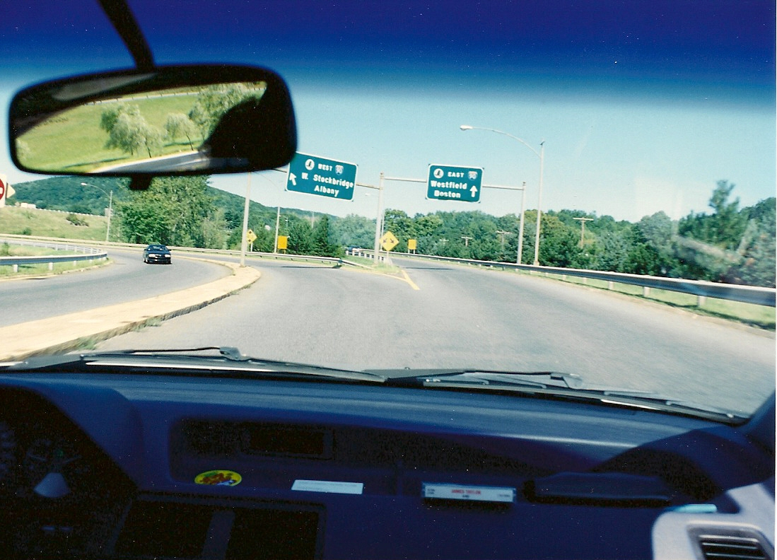 Listening to James Taylor's "Sweet Baby James" upon entry onto the Massachusetts Turnpike